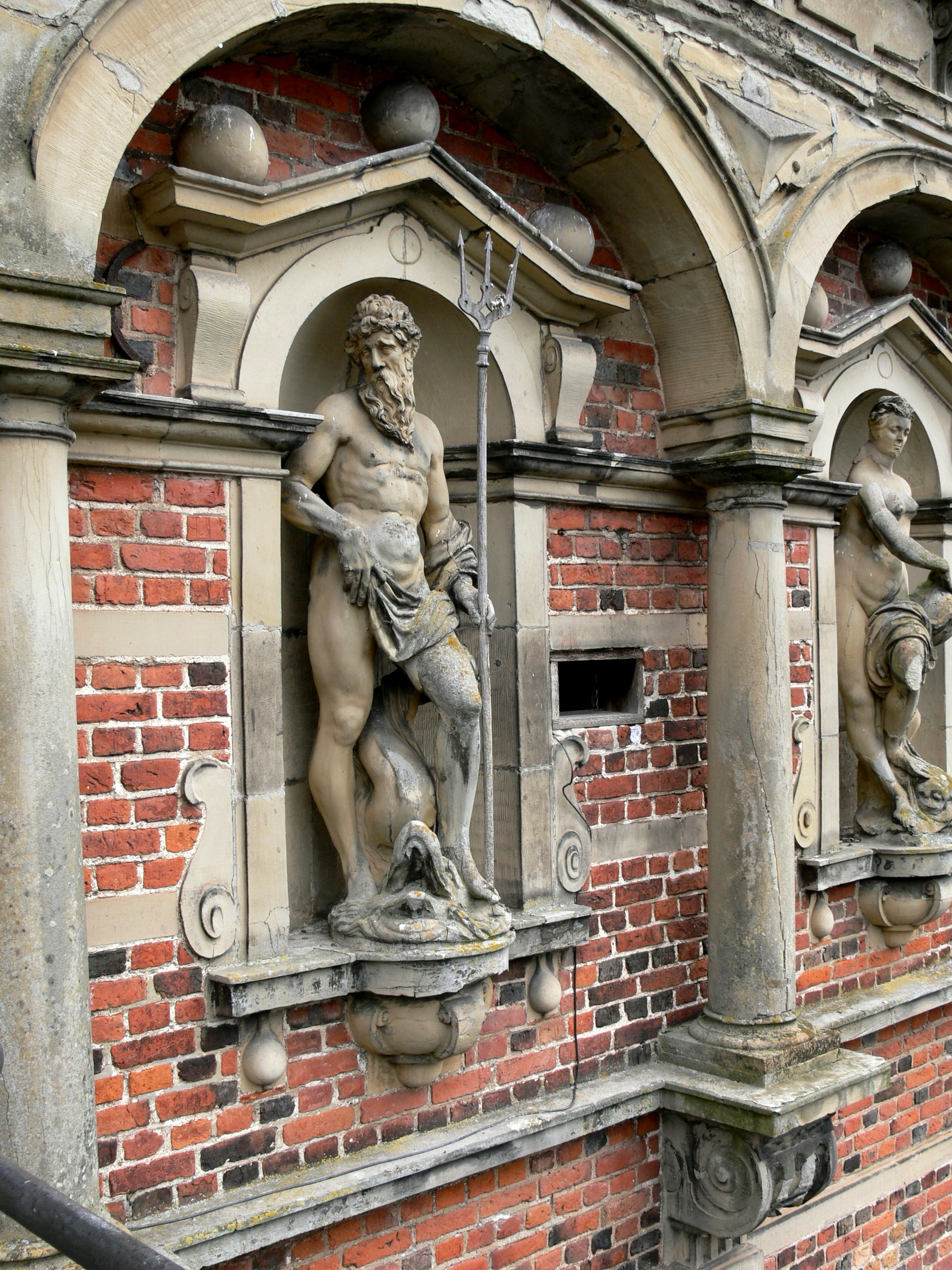 Frederiksborg palace. God Poseidon at the outside of of the inner courtyard wall.